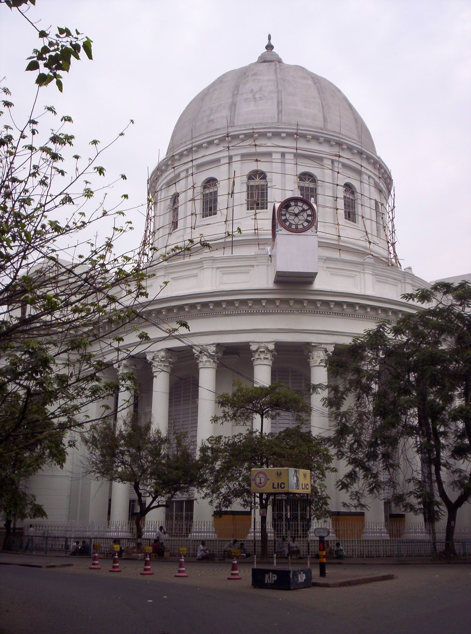 General Post Office, Kolkata, India